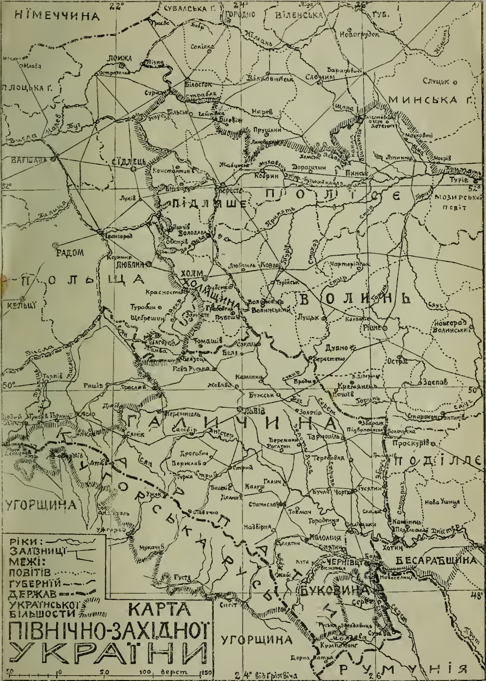 Map of Northwestern Ukraine according to Myron Korduba, 1917, Vienna.